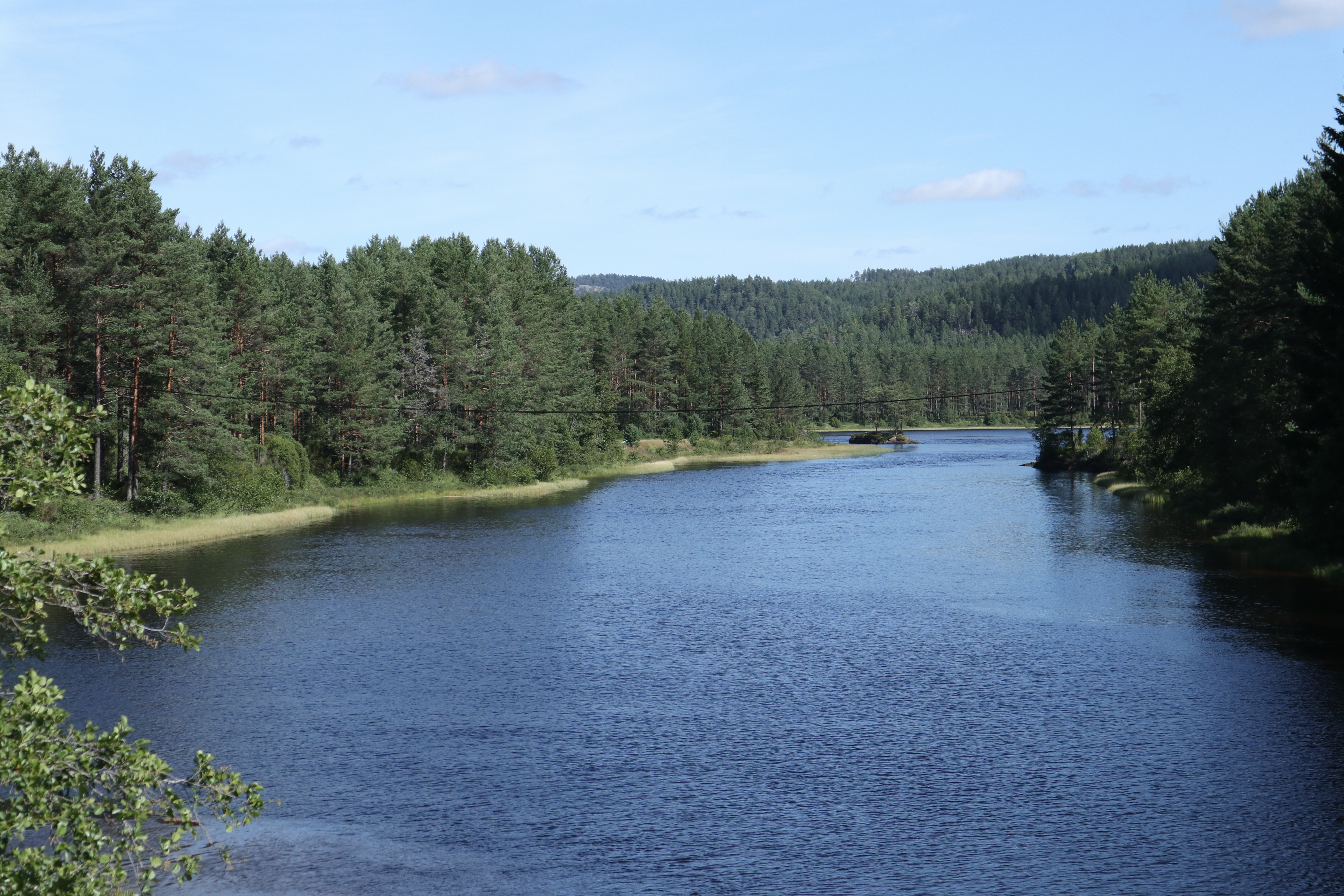 The River Tovdalselva by Svenes